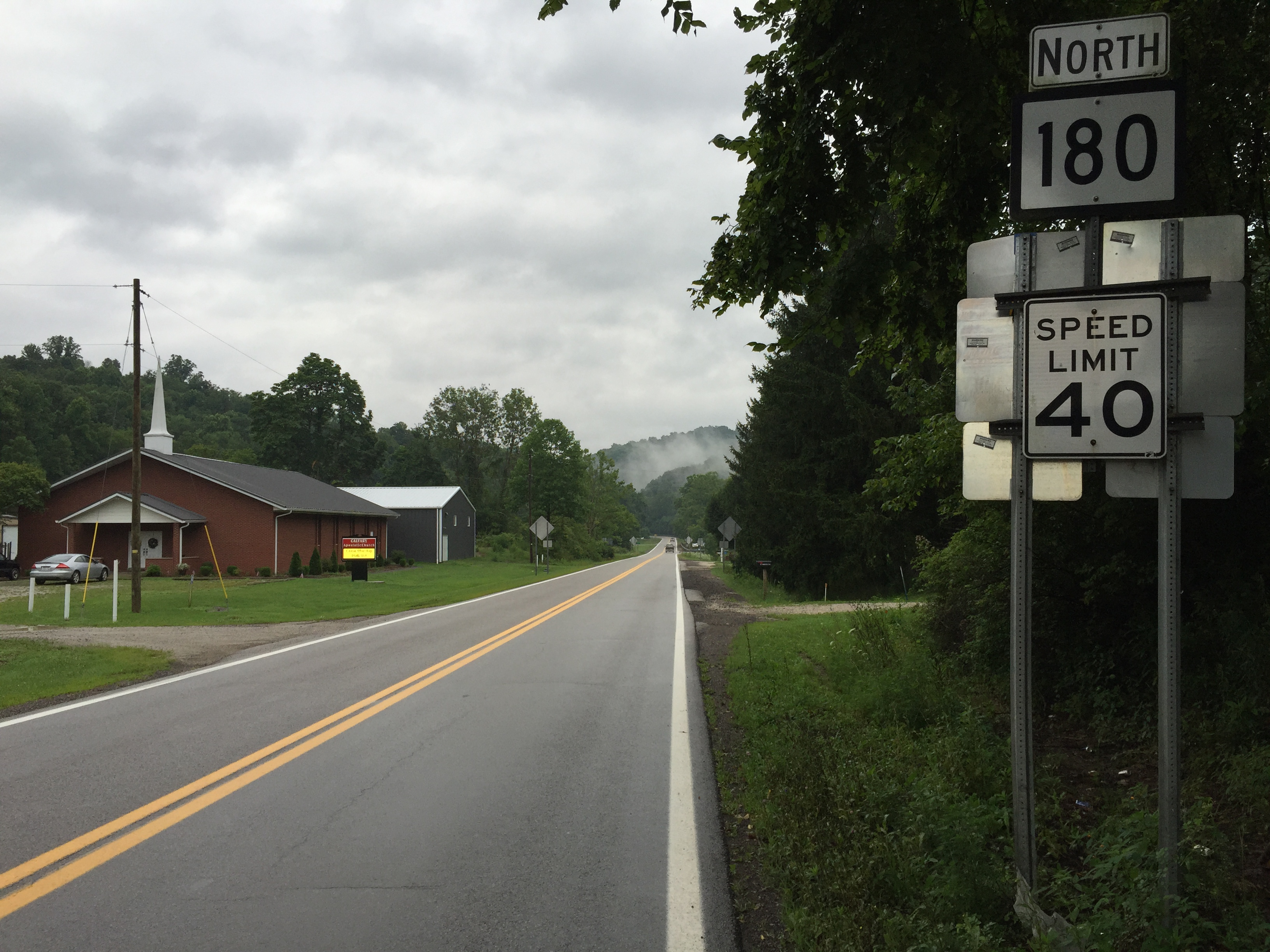 View north along West Virginia State Route 180 at West Virginia State Route 18 (Tyler Highway) in Kidwell, Tyler County, West Virginia